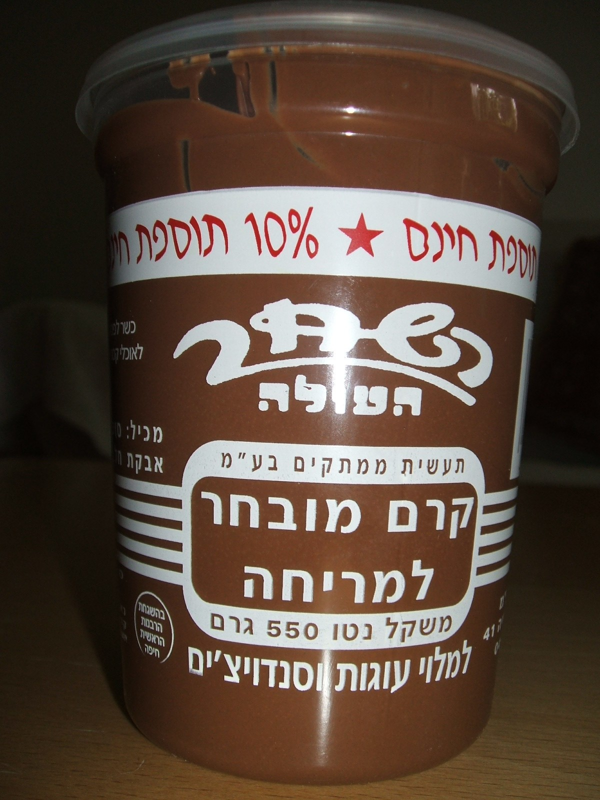 "Hashahar Ha'oleh" Chocolate spread, Israel